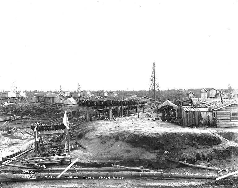 Ingalik Indian village of Anvik located on the right bank of the Yukon River at the mouth of the Anvik River. Shows fish drying racks . Caption on image: "Anvik Indian town Yukon River" Original photograph by Eric A. Hegg 1827; copied by Webster and Stevens 204.A Subjects (LCTGM): Cities & towns--Alaska; Log buildings--Alaska--Anvik; Fish drying--Alaska--Anvik Subjects (LCSH): Anvik (Alaska); Indians of North America--Alaska--Anvik; Ingalik Indians--Alaska--Anvik